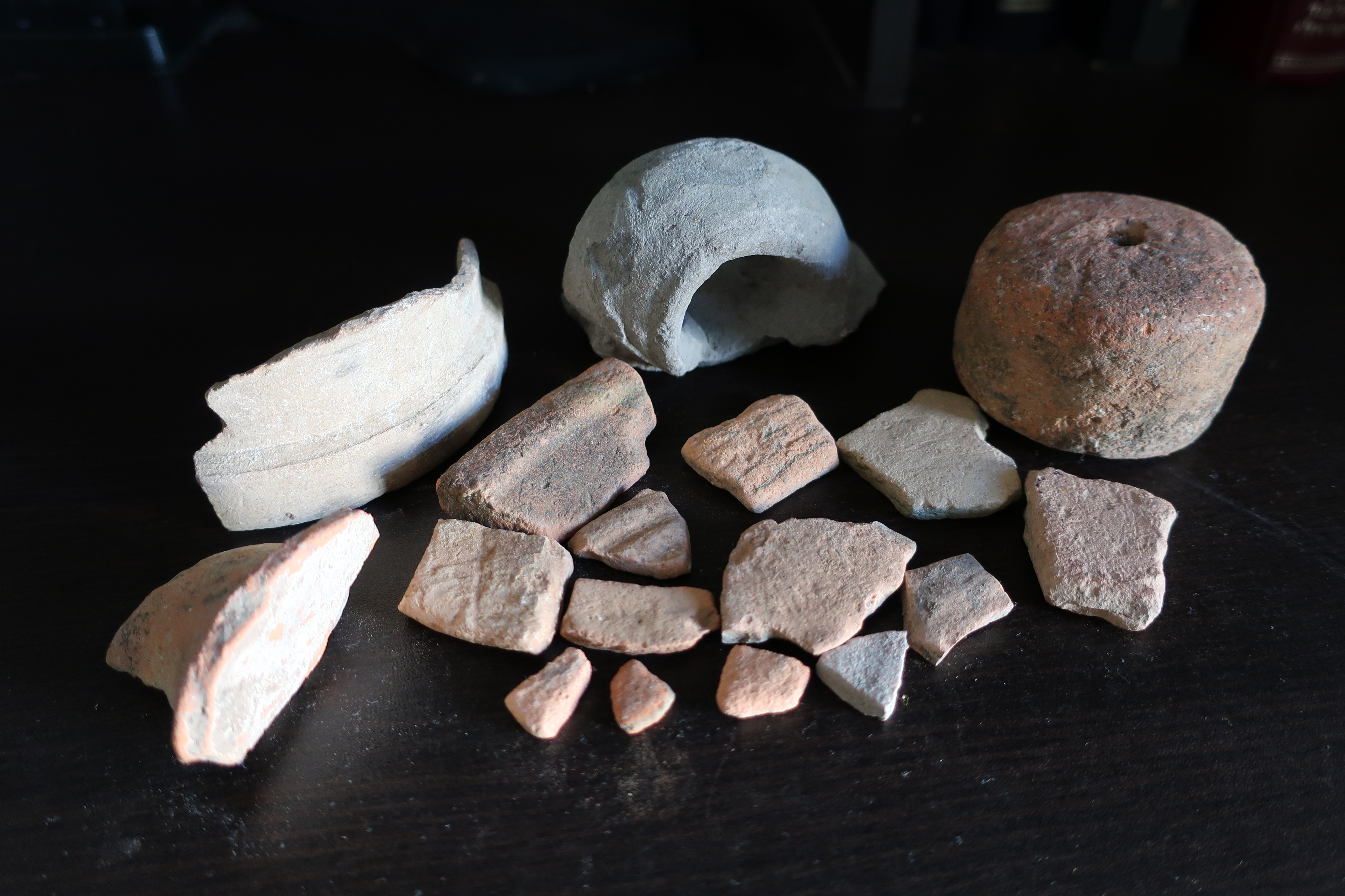 Various shaped shards and loom weight from archaeological sites in Israel